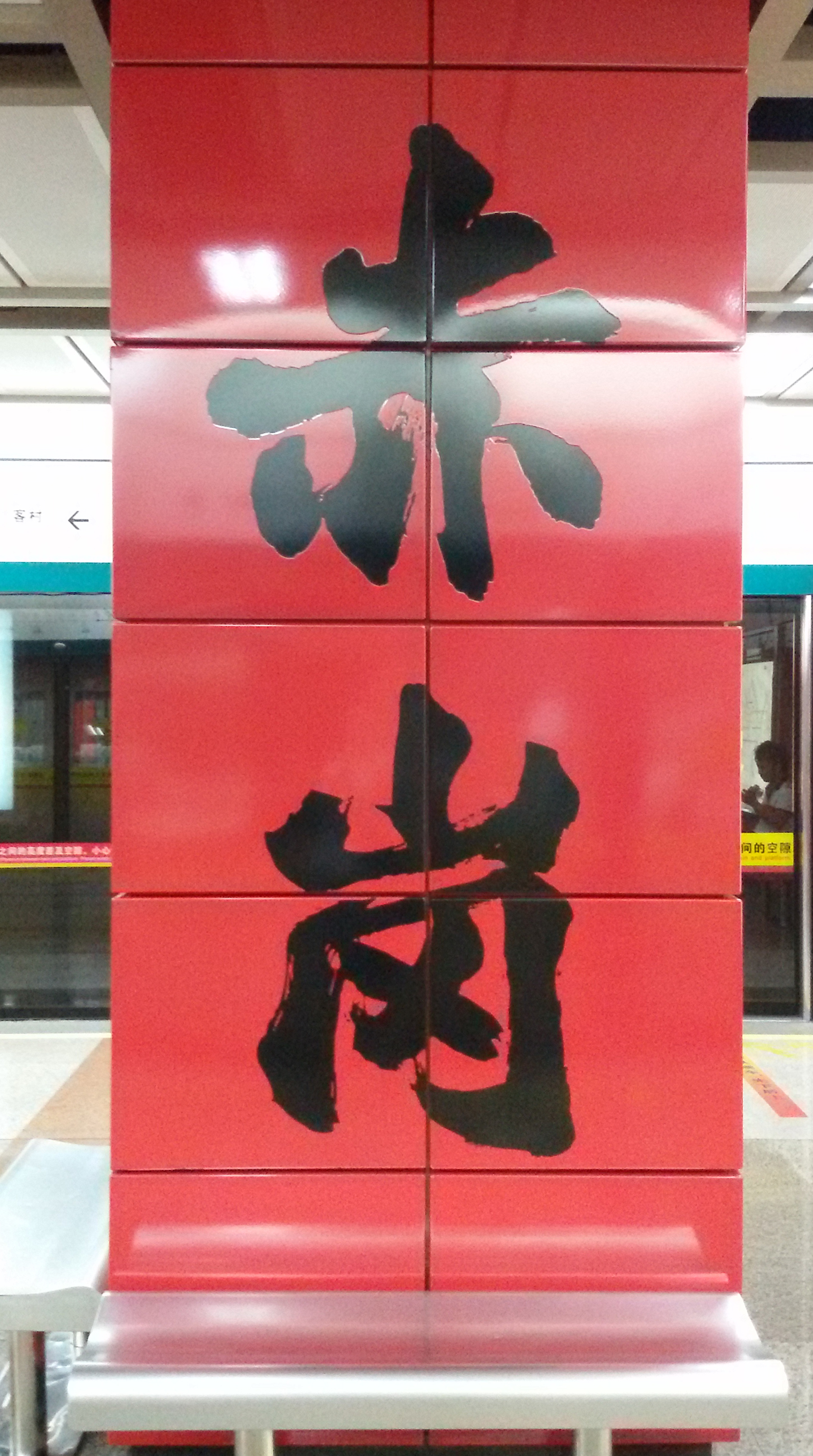 WORD on PILLAR for Chigang Station in Guangzhou Metro 粵語: 廣州地鐵，赤崗站嘅柱上面啲字。